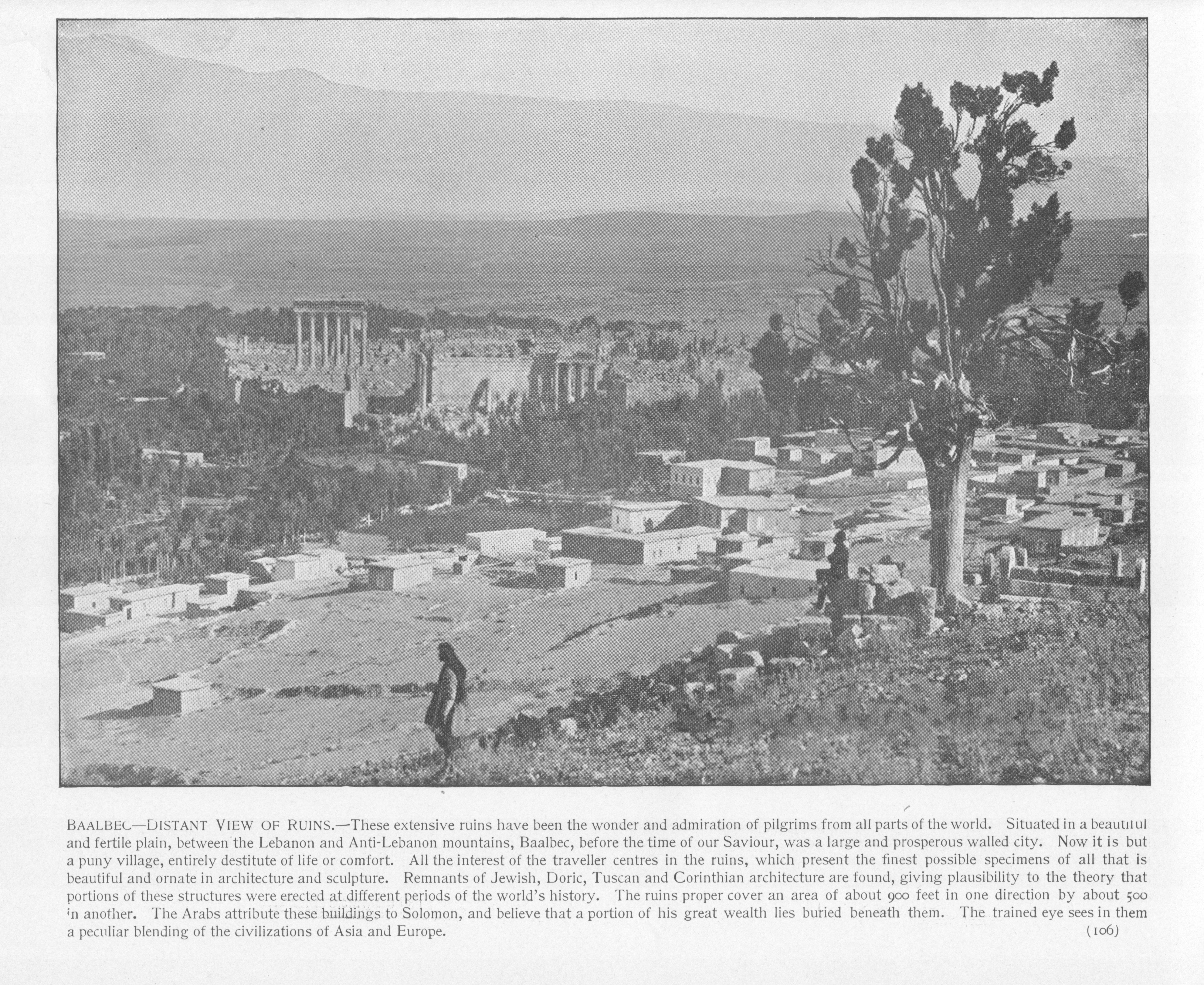 Baalbec, Distant View of Ruins.